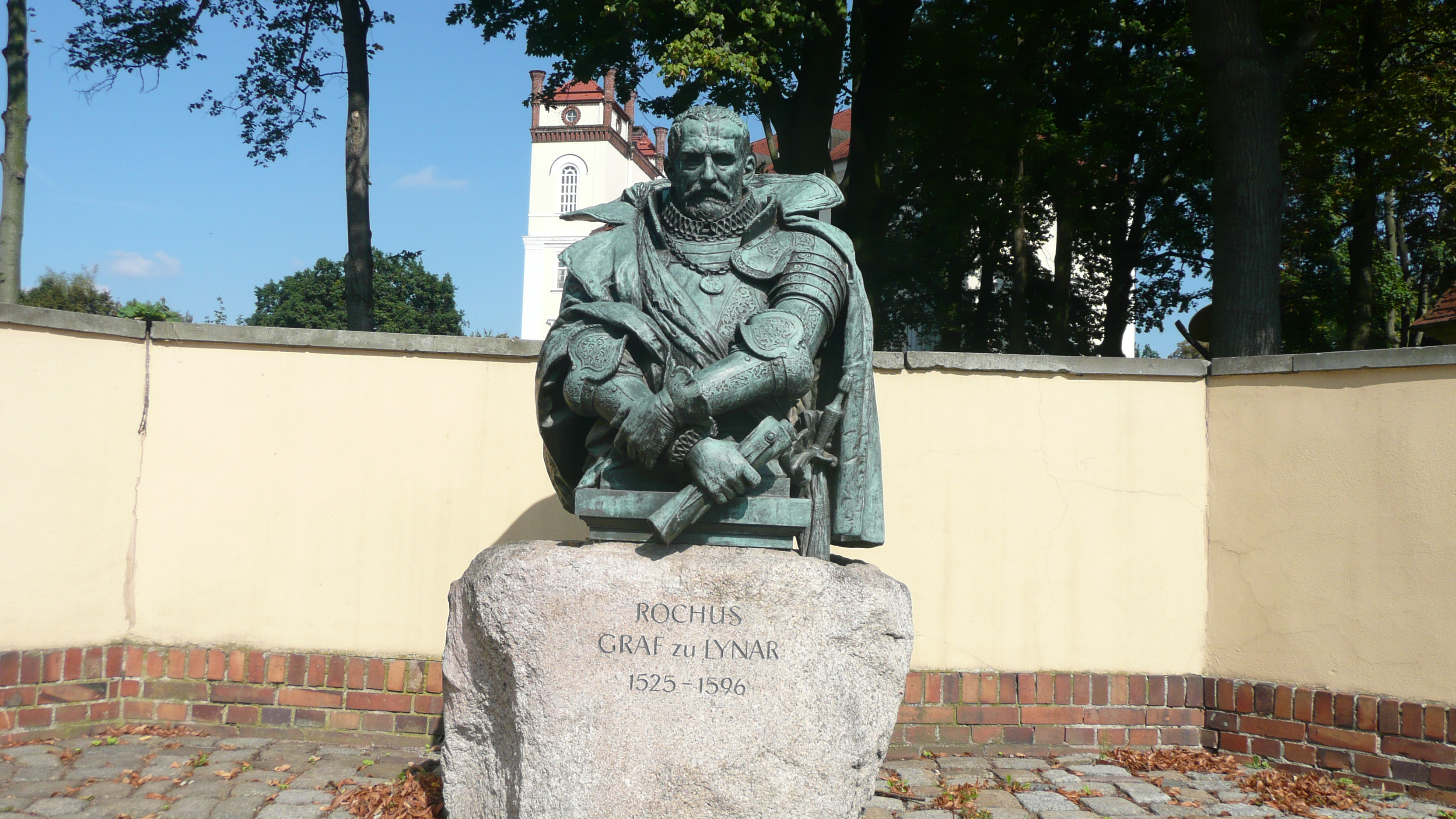 Graf Rochus zu Lynar - Statue in Lübbenau (Spreewald)/Germany